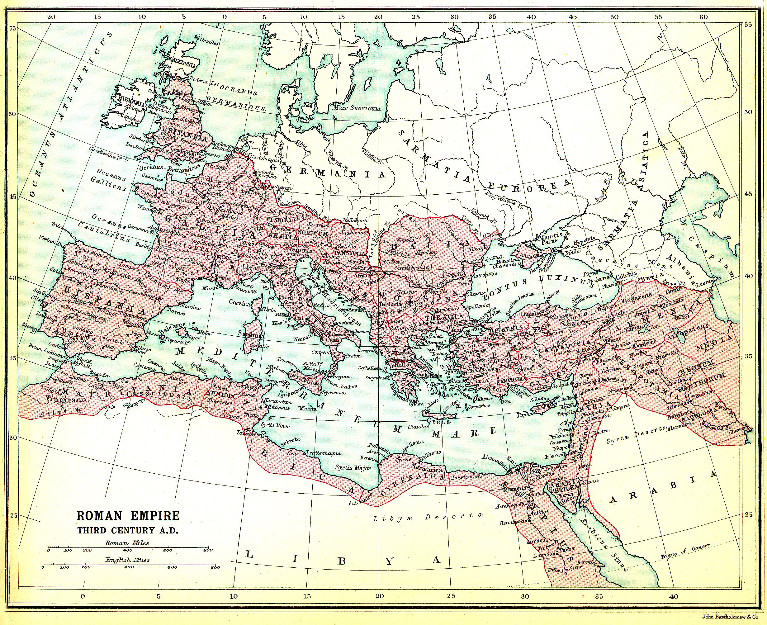 Historic map of the Roman Empire AD 200 by Bartholemew; Taken from: Atlas of the Historical Geography of the Holy Land